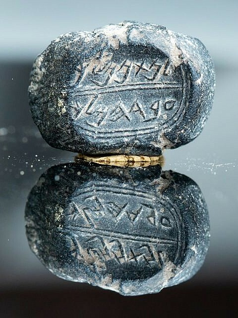 The Natan-Melech/Eved Hamelech bulla (seal impression) dated to the First Temple period, features Hebrew writing: "Natan-Melech the King’s Servant" that appears in the second book of Kings 23:11. The seal was used to sign documents 2600 years ago and was uncovered in archaeological excavations of the Givati Parking Lot in the City of David National Park in Jerusalem conducted by Prof. Yuval Gadot of Tel Aviv University and Dr. Yiftah Shalev of the Israel Antiquities Authority. Photo by Eliyahu Yannai